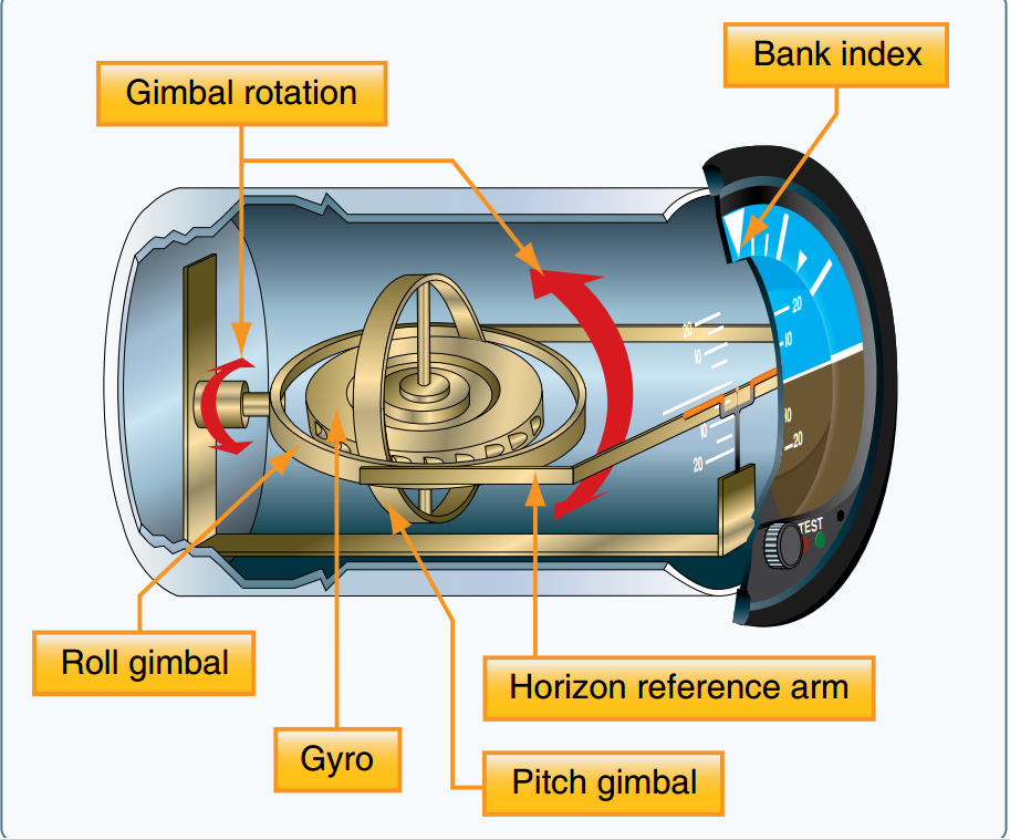 Attitude Indicator Interior